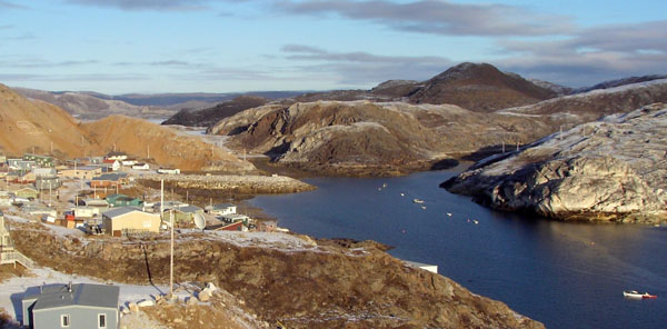 Kimmirut, November 2006.